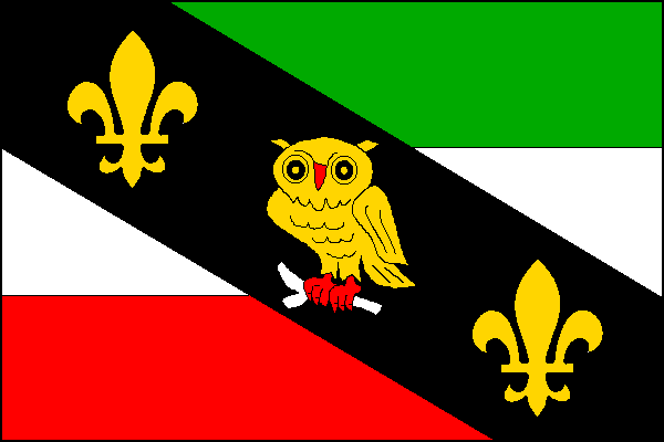 Municipal flag of Sedlec , District Prague East, Czech Republic